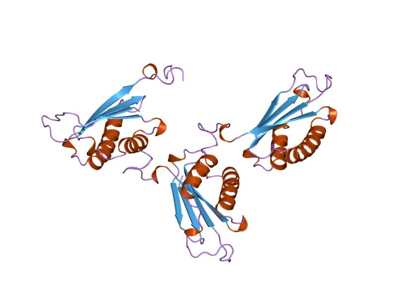 Cartoon representation of the molecular structure of protein registered with 1dpt code.